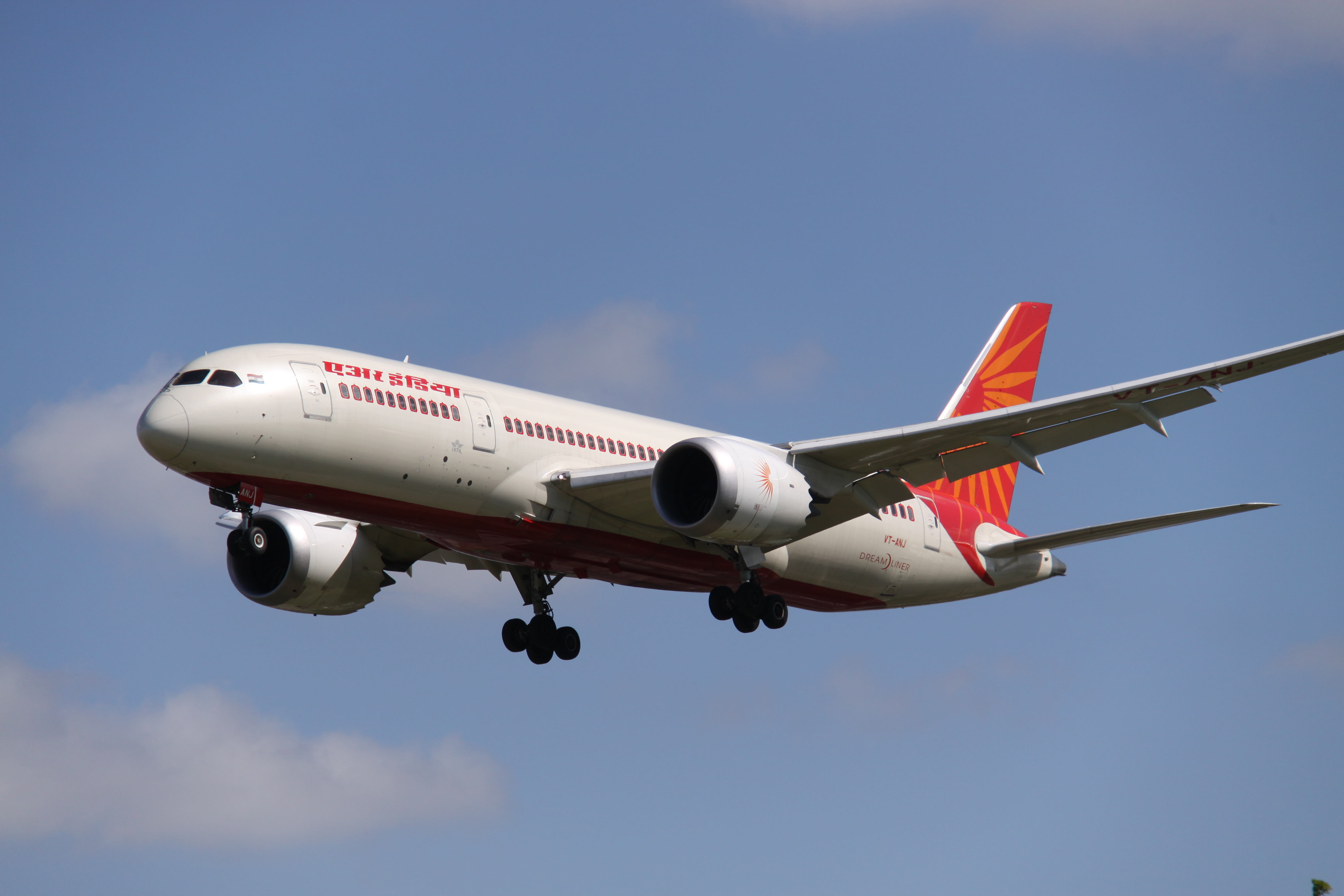 At London Heathrow